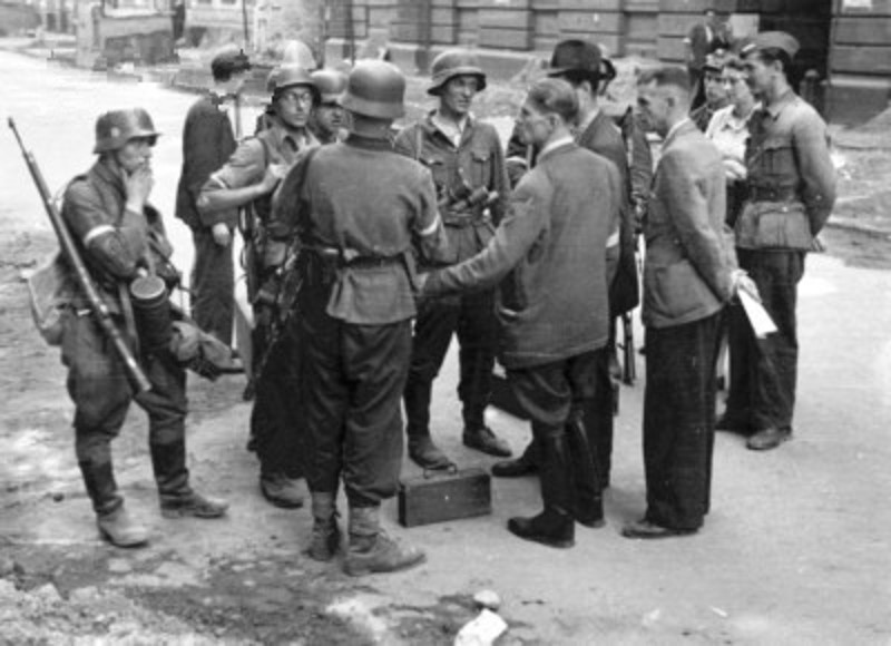 Warsaw Uprising: Debriefing of soldiers from "Koszta" Company at Moniuszki Street.